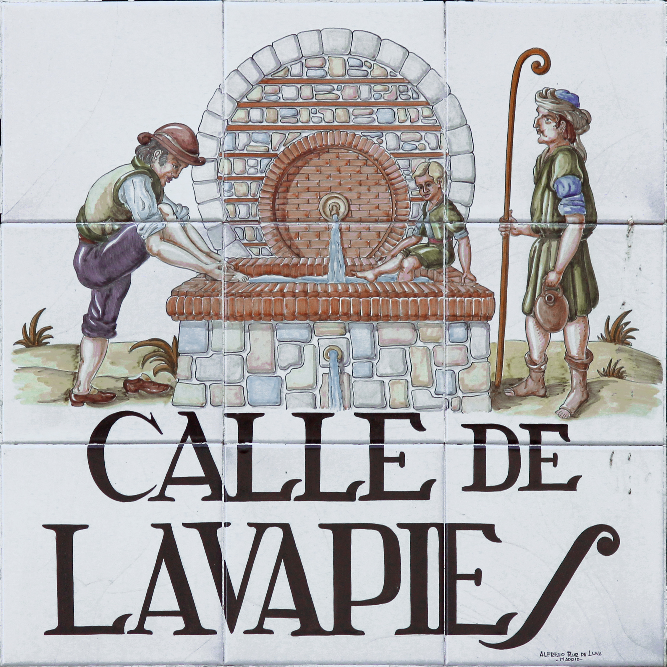 Sign of Calle de Lavapiés (street) in Madrid (Spain).